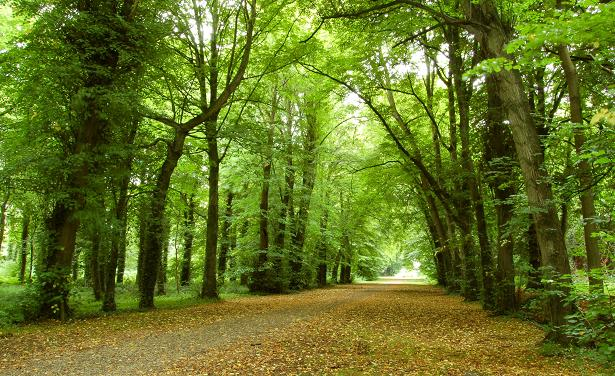 The Castle Gardens , Antrim (1). This link gives the background to the Castle Gardens. This is the main avenue looking towards the Randalstown Road. The canal 642907 is behind the trees on the left. Continue to 943223.